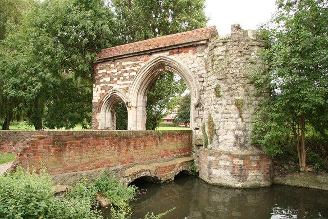 Waltham Abbey Gateway Bridge over the Cornmill Stream and gateway to Walham Abbey, built in 1369